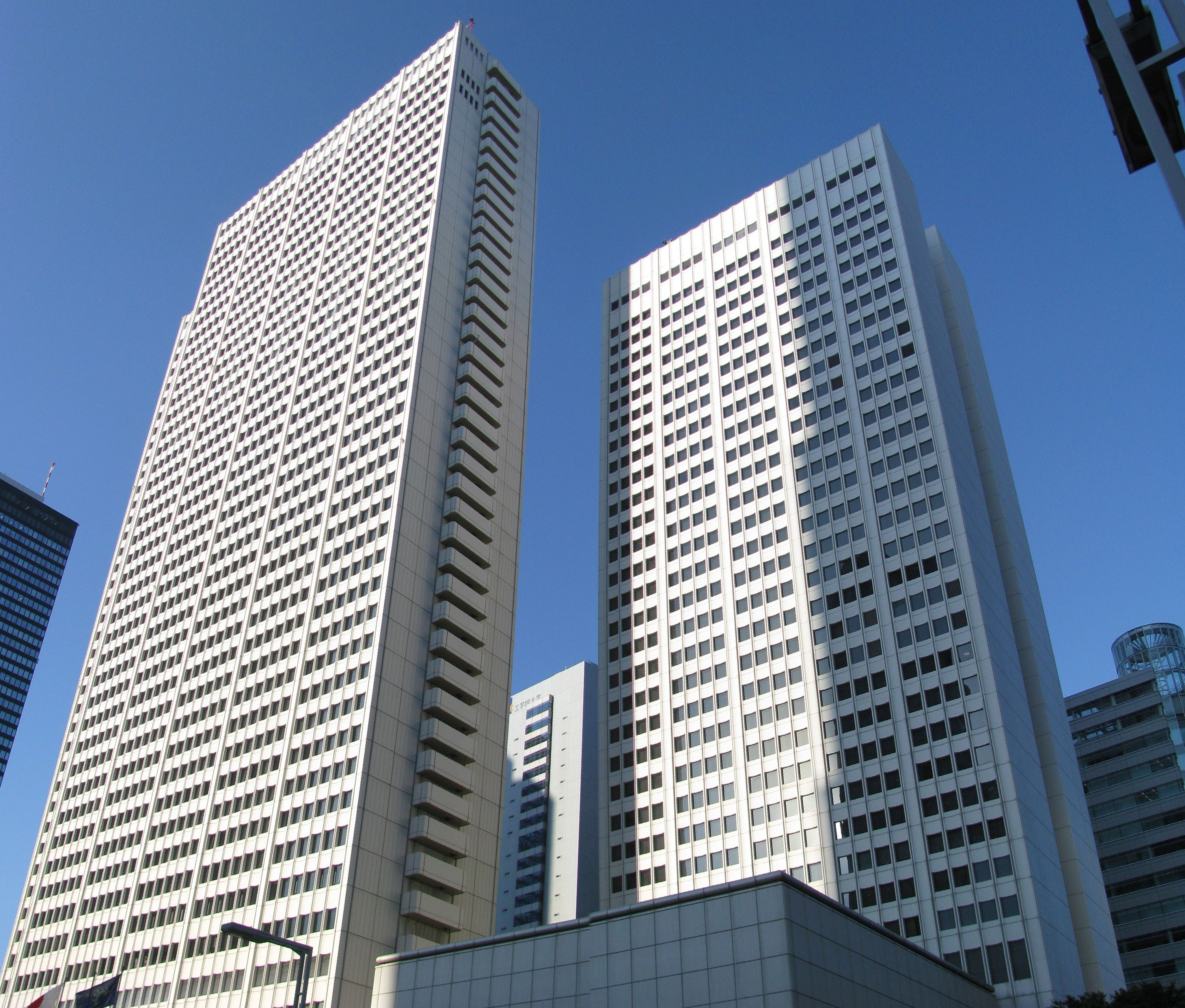 The Keio Plaza Hotel. This place is Nishi-Shinjuku in Shinjuku, Tokyo, Japan.